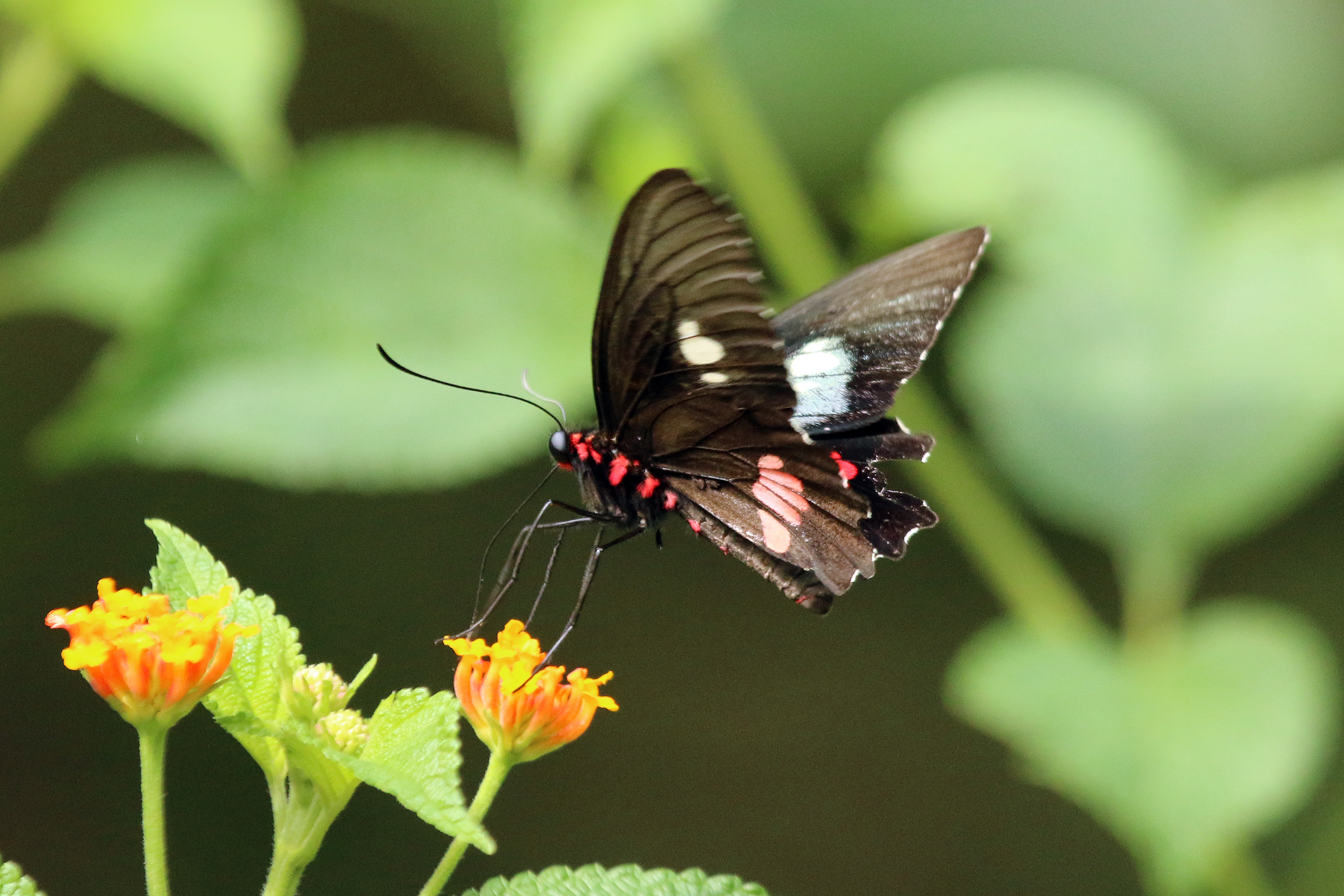 Spear-winged cattleheart butterfly (Parides neophilus parianus) female, Trinidad